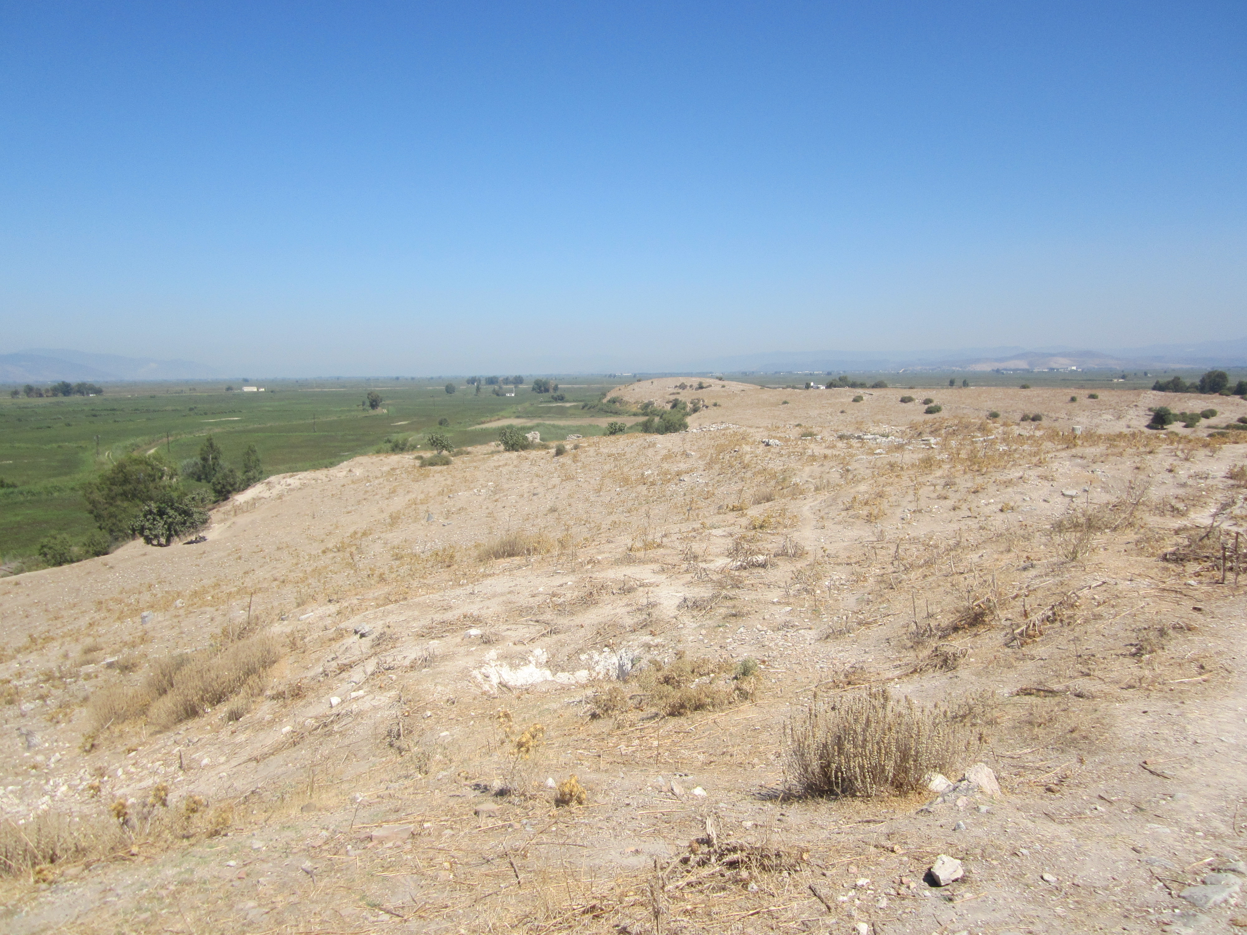 Miletus peninsula, view to NE.